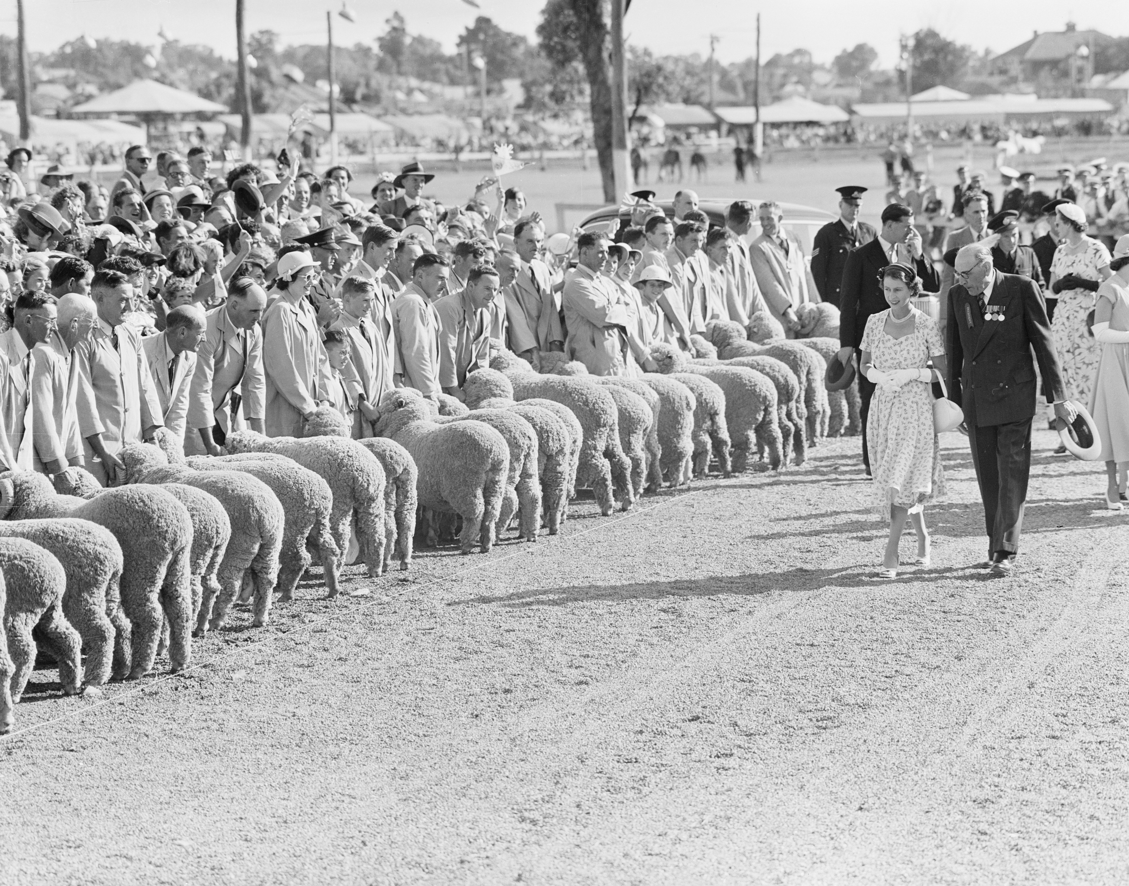 Queen Elizabeth II inspecting Merino sheep at the Wagga Wagga agricultural show in 1954. National Archives of Australia: barcode - 7529077, series accession number - A1773/1.